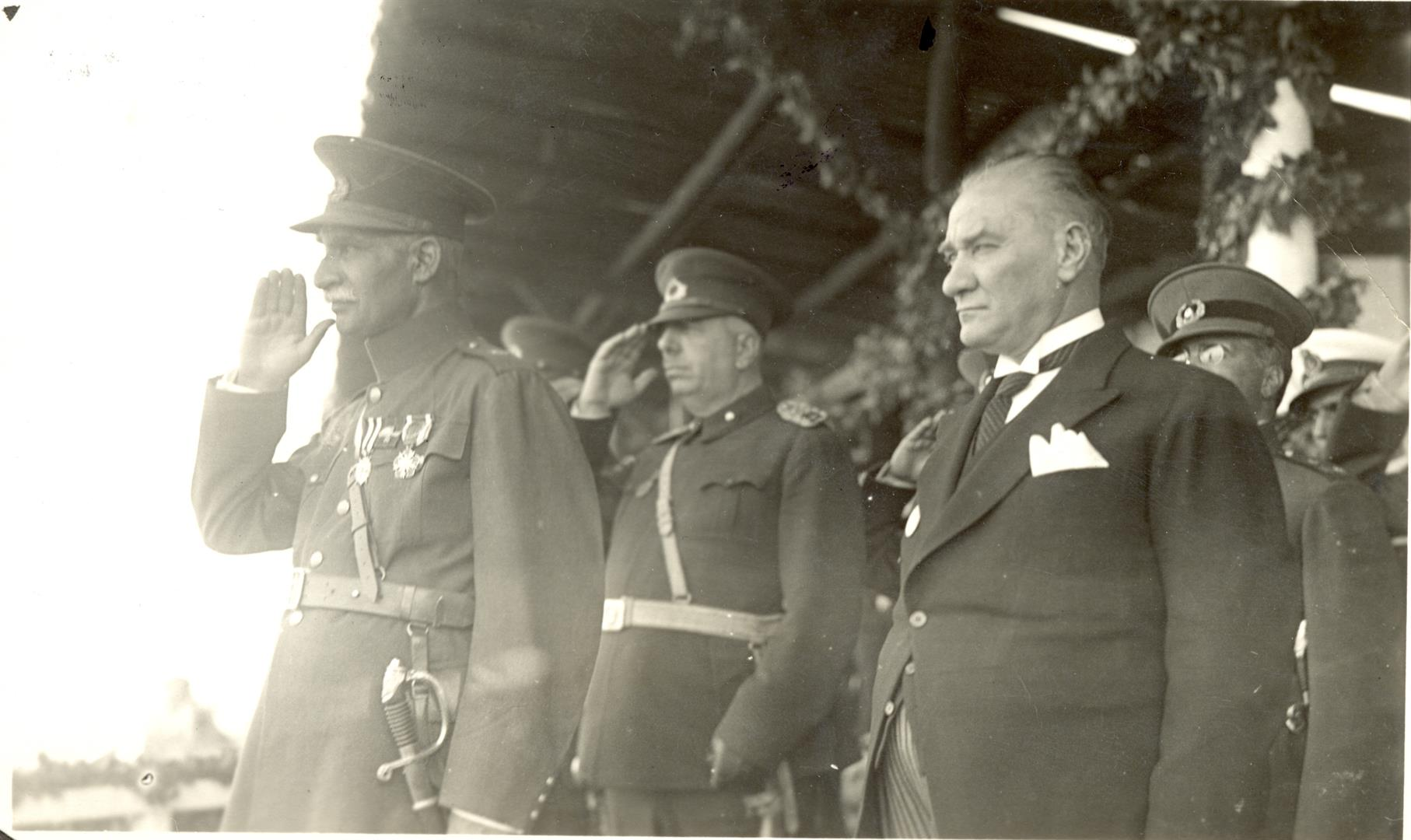 Reza Shah's visit to Turkey. Reza Shah, Fahrettin Altay, Mustafa Kemal AtatürkTürkçe: Rıza Şah'ın Türkiye'yi ziyareti. Rıza Şah, Fahrettin Altay, Mustafa Kemal Atatürk